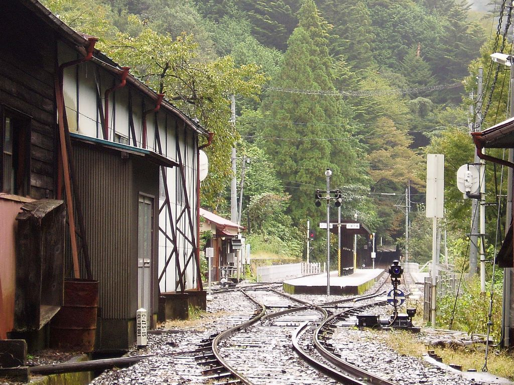 Inside of Sessokyo Onsen Sta.